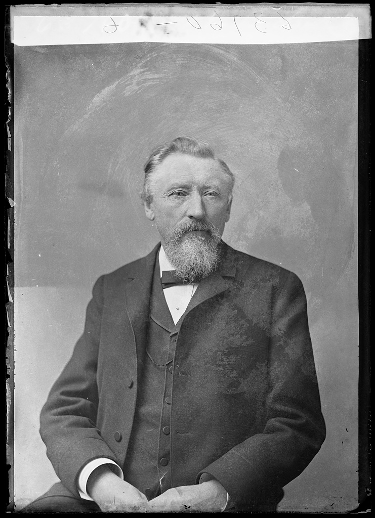 Hon. George H. Brickner, Member of Congress from the Fifth Wisconsin District, and President of the Brickner Woolen Mills Company, of Sheboygan Falls, from the Portrait and Biographical Record of Sheboygan County, Wis.: 1898, p. 521.